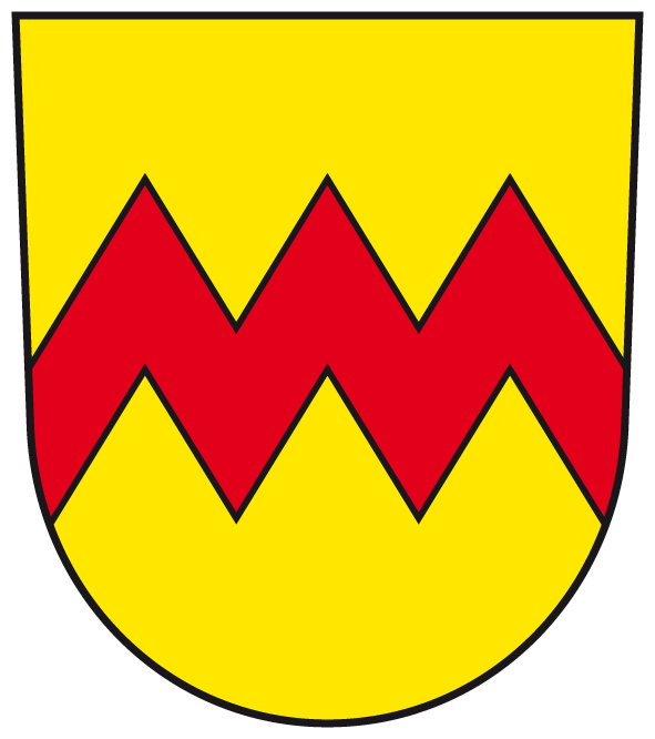 Coat of arms of Manderscheid